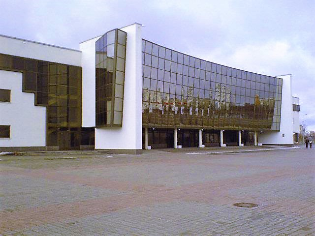 Ice palace in Gomel